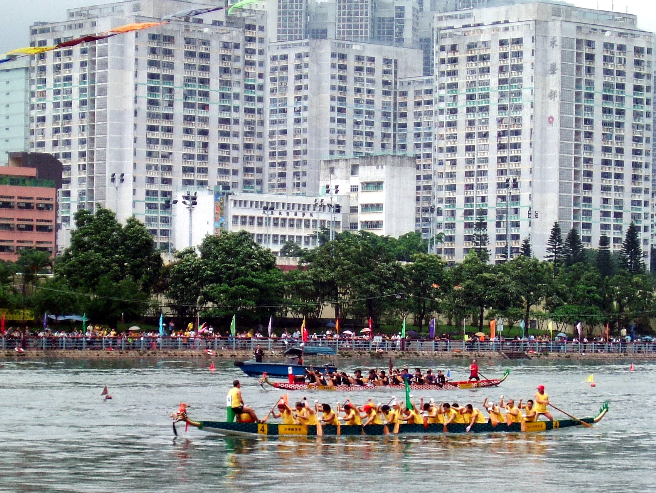 Dragon boat racing in China. (Shing Mun River, Sha Tin, Hong Kong, China) Photo by Mr. Wabu I was here heheh